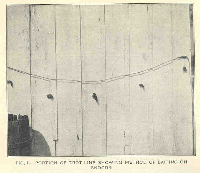 Portion of Trot-Line, Showing Method of Baiting on Snoods Subject: Crab fisheries, Fisheries--Equipment and supplies Geographic Subject: Chesapeake Bay (Md. and Va.) Tag: Fisheries Techniques